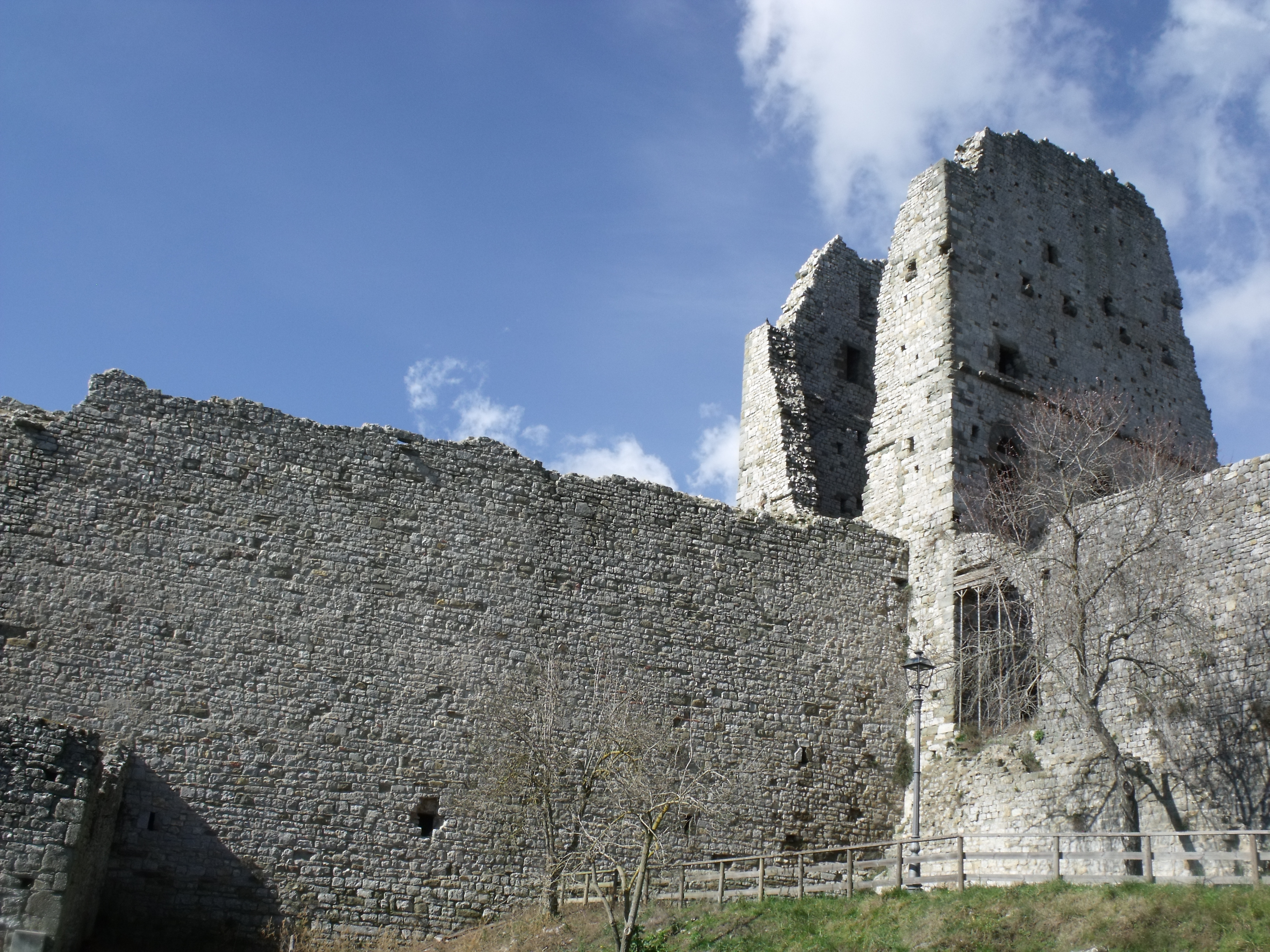 Rocca (Castle) of Civitella in Val di Chiana, Province of Arezzo, Tuscany, Italy